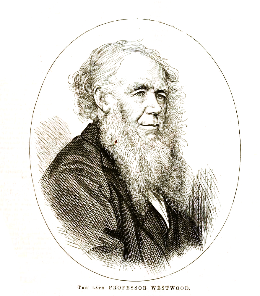 John Obadiah Westwood